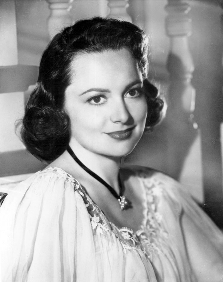 Olivia de Havilland publicity photo, 1948